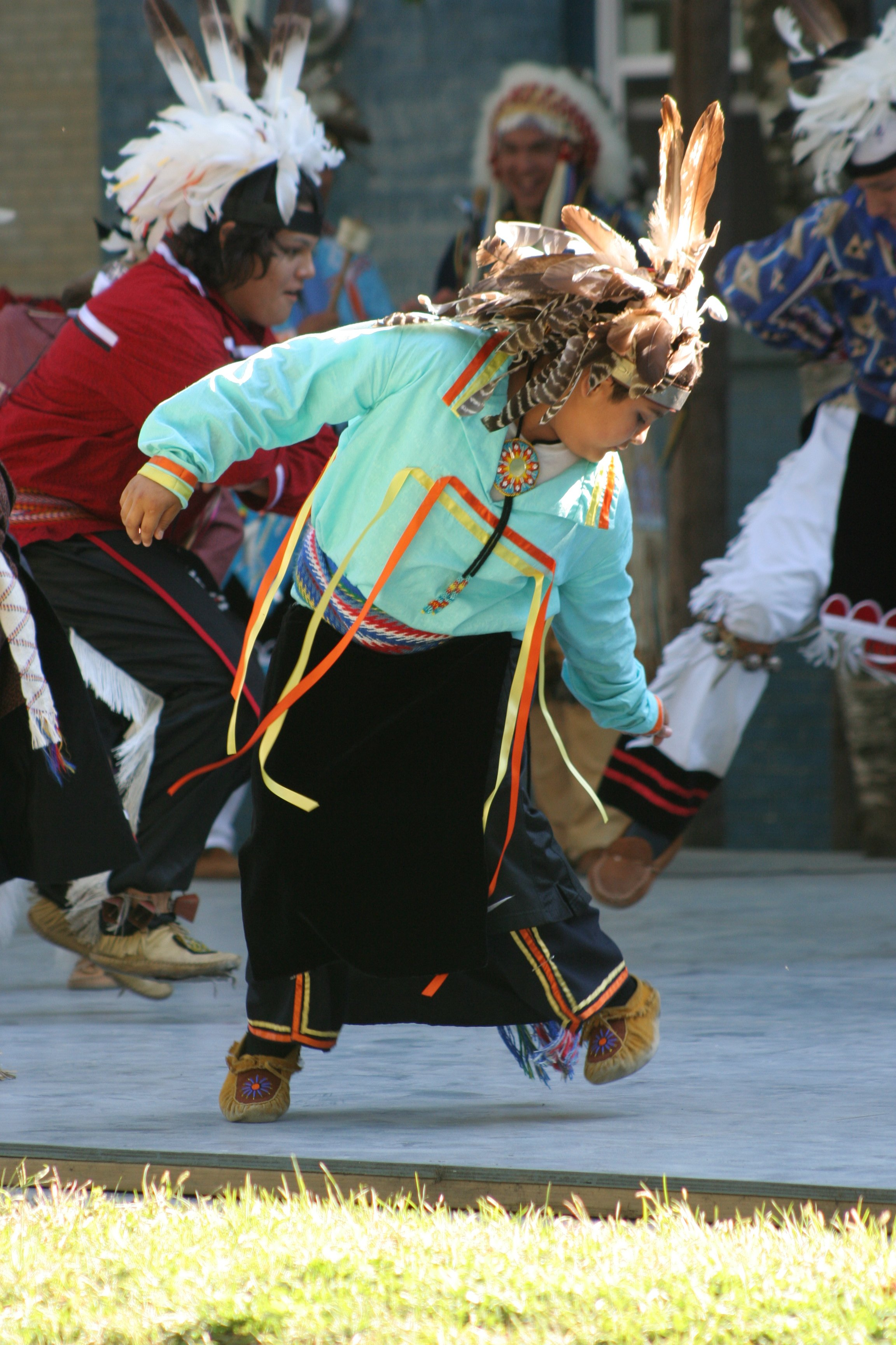 Traditional dance performance in the Iroquois Indian Village at the 2008 New York State Fair.